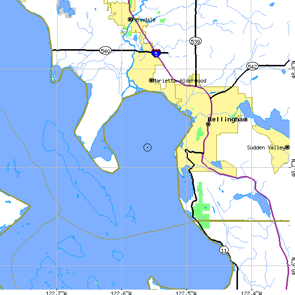 Map of Bellingham Bay